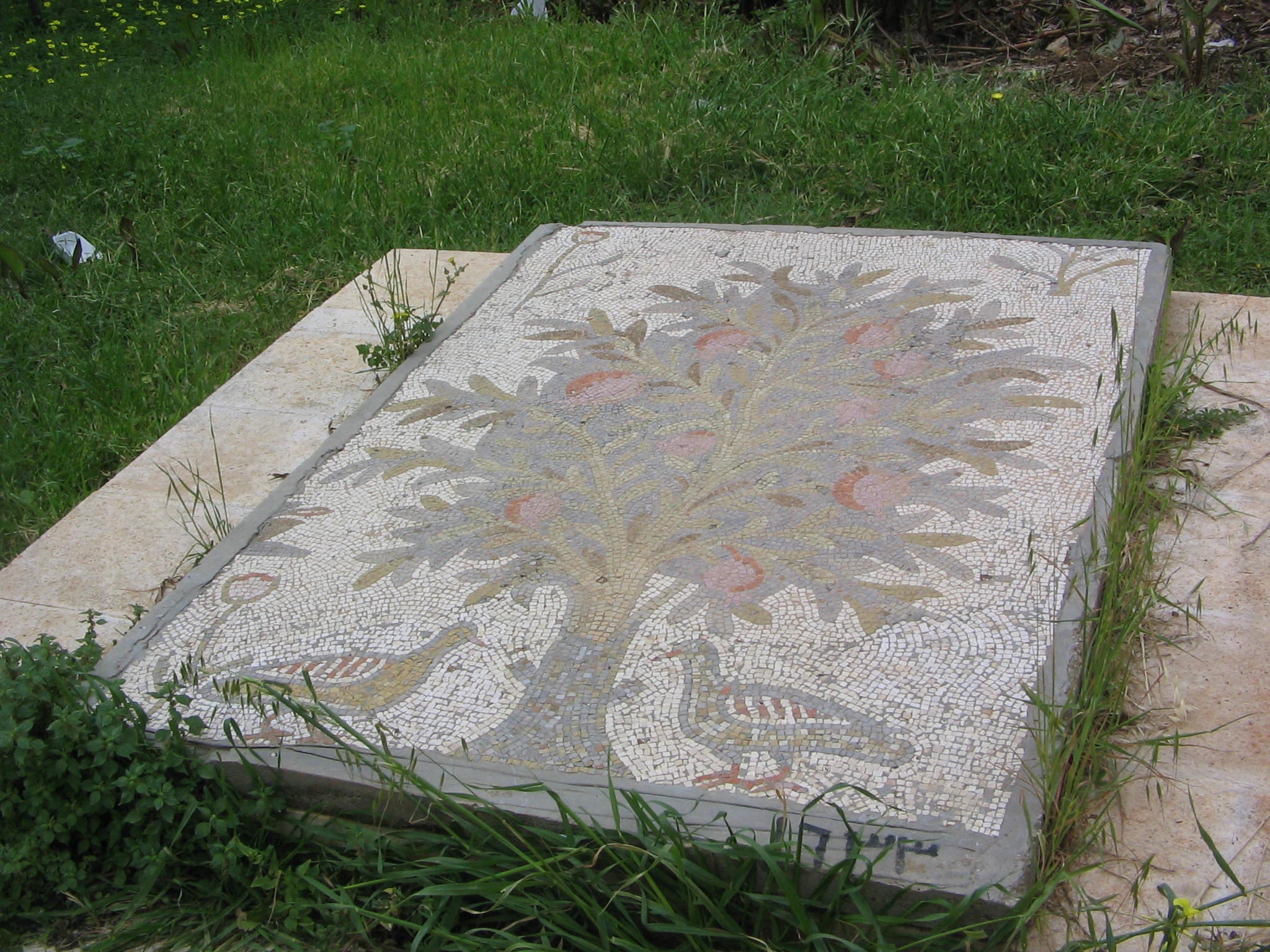 Roman mosaic from the Forum area, Latakia (Laodicea) in 2006